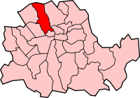 Map of the Metropolitan borough of St Pancras, former County of London.